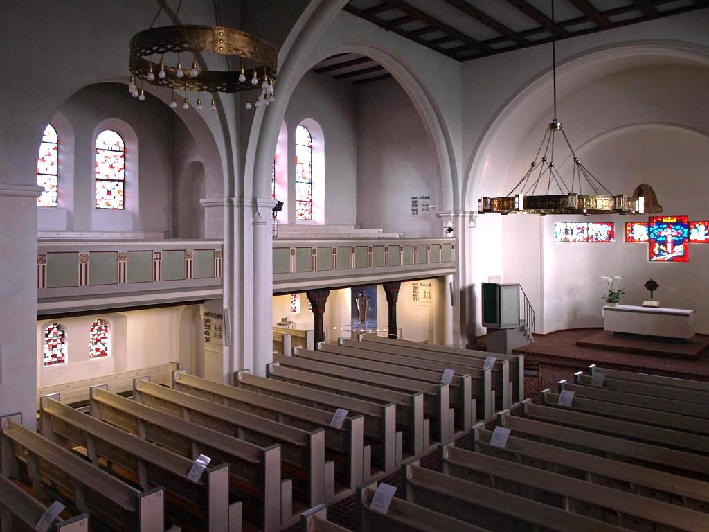 Westerland (Sylt), Slesvic-Holstein (Germany): church St. Nicolai,interior, photo 2008